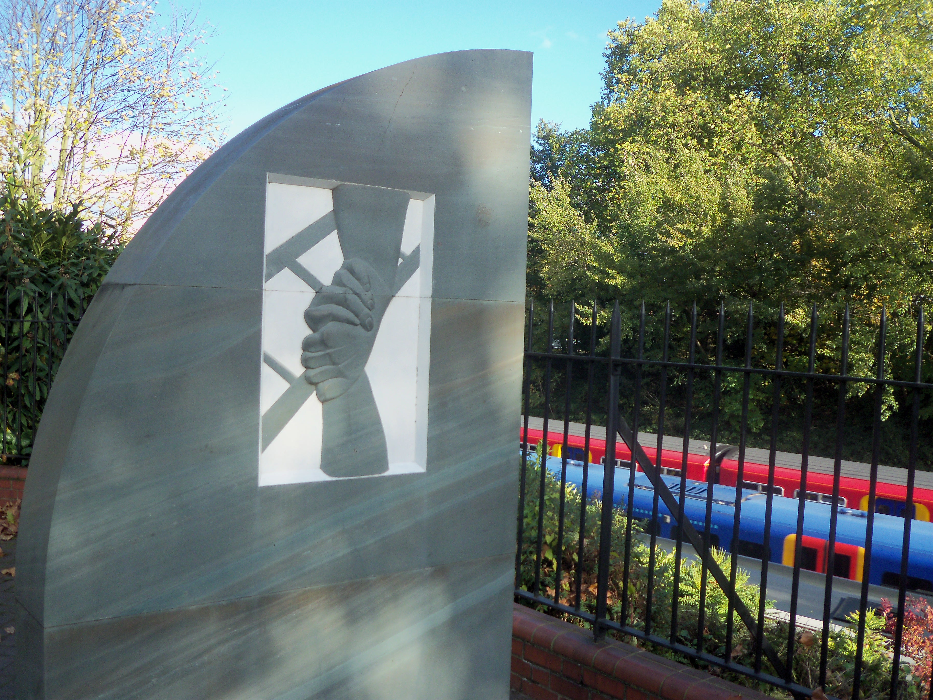 Memorial to the multiple train collision just outside Clapham Junction railway station in London that occurred on 12 December 1988 and killed 35 people.